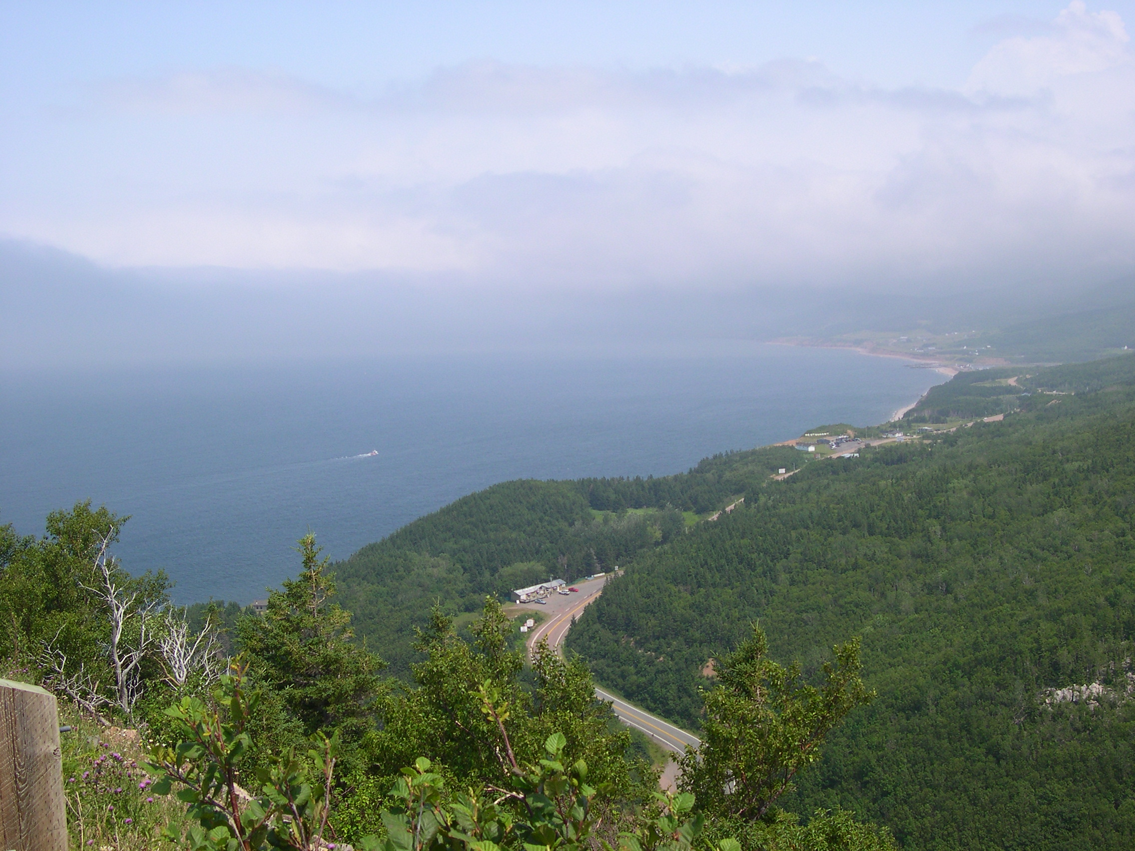 Nova Scotia, CanadaJuly 17-30, 2003